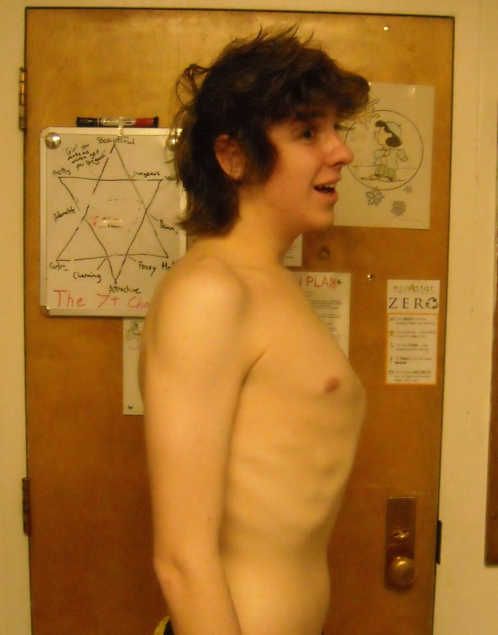 Severe case of Pectus Carinatum